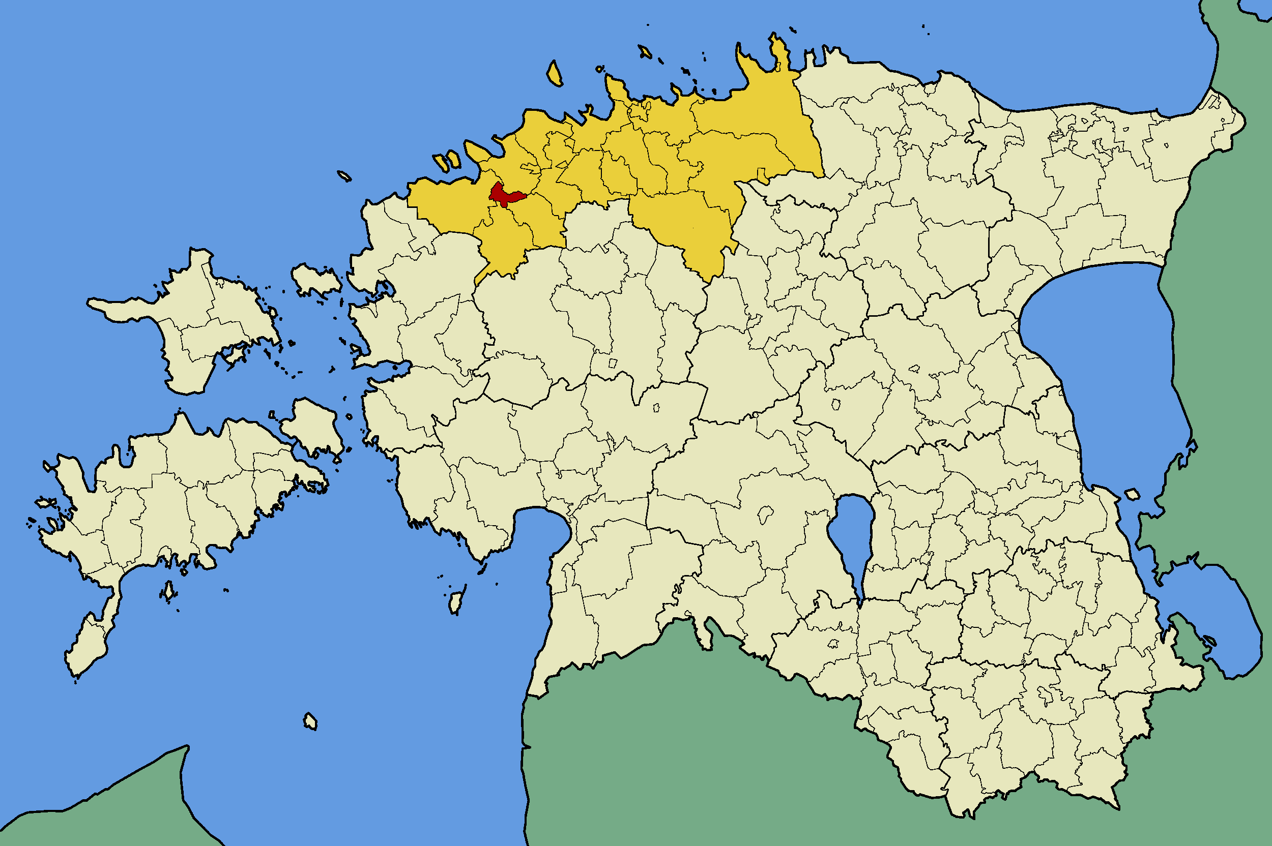 Map of Estonia with borders of municipalities (parishes). Harju county and Vasalemma municipality (parish) emphasized.